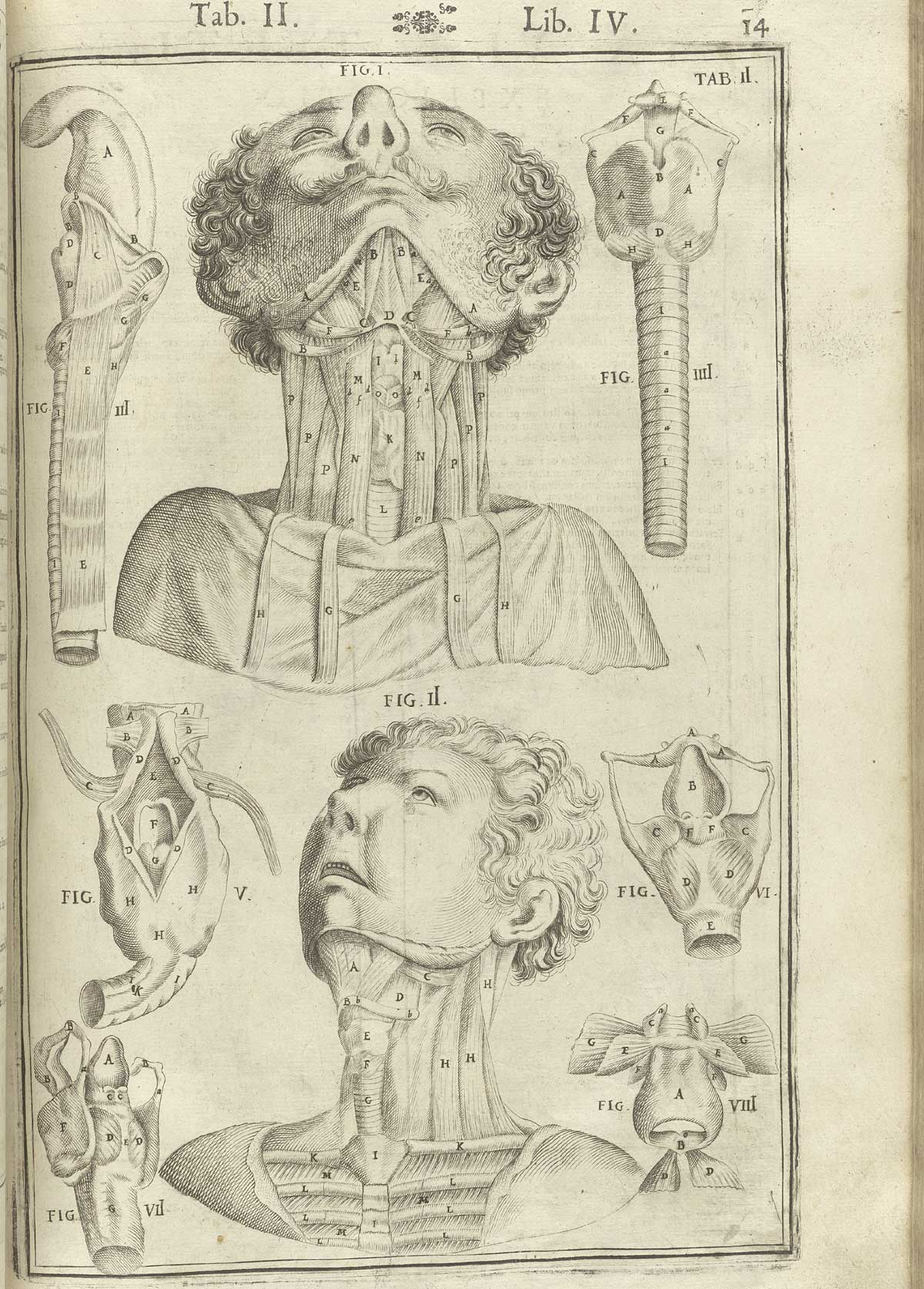 Muscles and organs of neck.